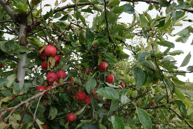 farms 4